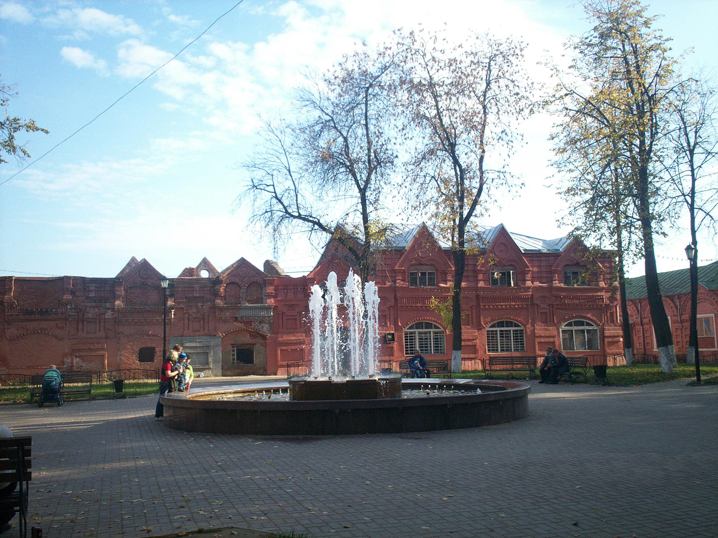 Fountain on Sovietskaya square. Klin city, Moscow area